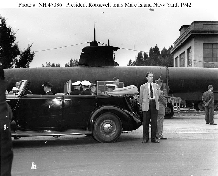 Photo #: NH 47036 President Franklin D. Roosevelt Seated in an automobile, while touring the Mare Island Navy Yard in 1942. With him are Vice Admiral John W. Greenslade, Commander 12th Naval District, and Rear Admiral Wilhelm L. Friedell, Commandant Mare Island Navy Yard. Secret Servicemen are on duty around the car. In the background is the Japanese midget submarine HA-19, which had been captured on 8 December 1941, immediately after the attack on Pearl Harbor. During World War II, it was taken around the country on War Bond tours. Official U.S. Navy Photograph, from the collections of the Naval History and Heritage Command.